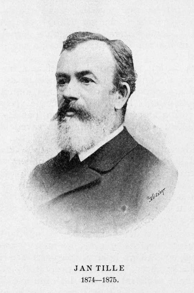 Portrait of Jan Tille (1833 - 1897), professor of mechanical engineering at Czech Technical University. In 1874-75, he served as president (rector) of this institution.